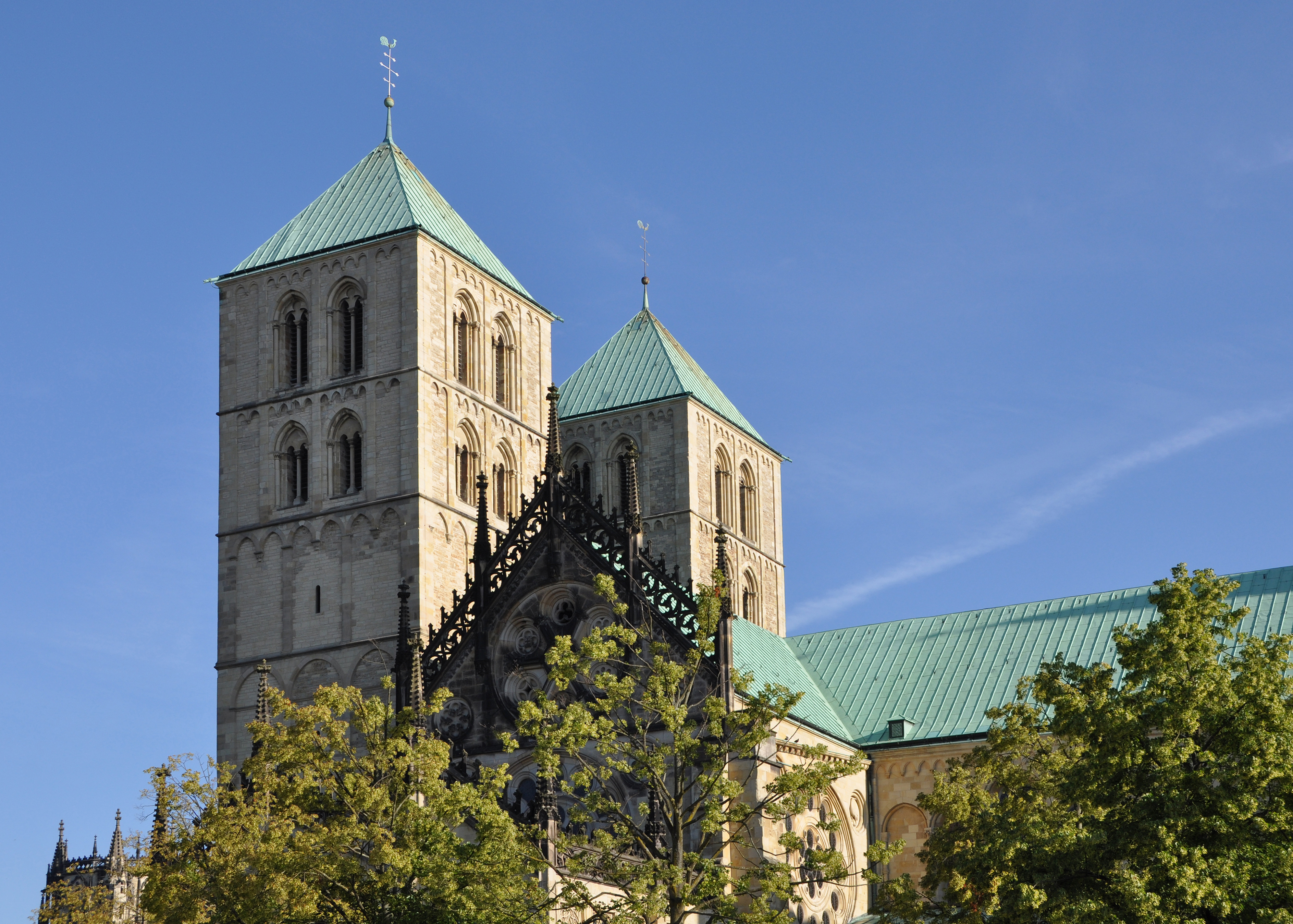 Münster (Germany): the St Paul's cathedral - detail: western block with the bell towers